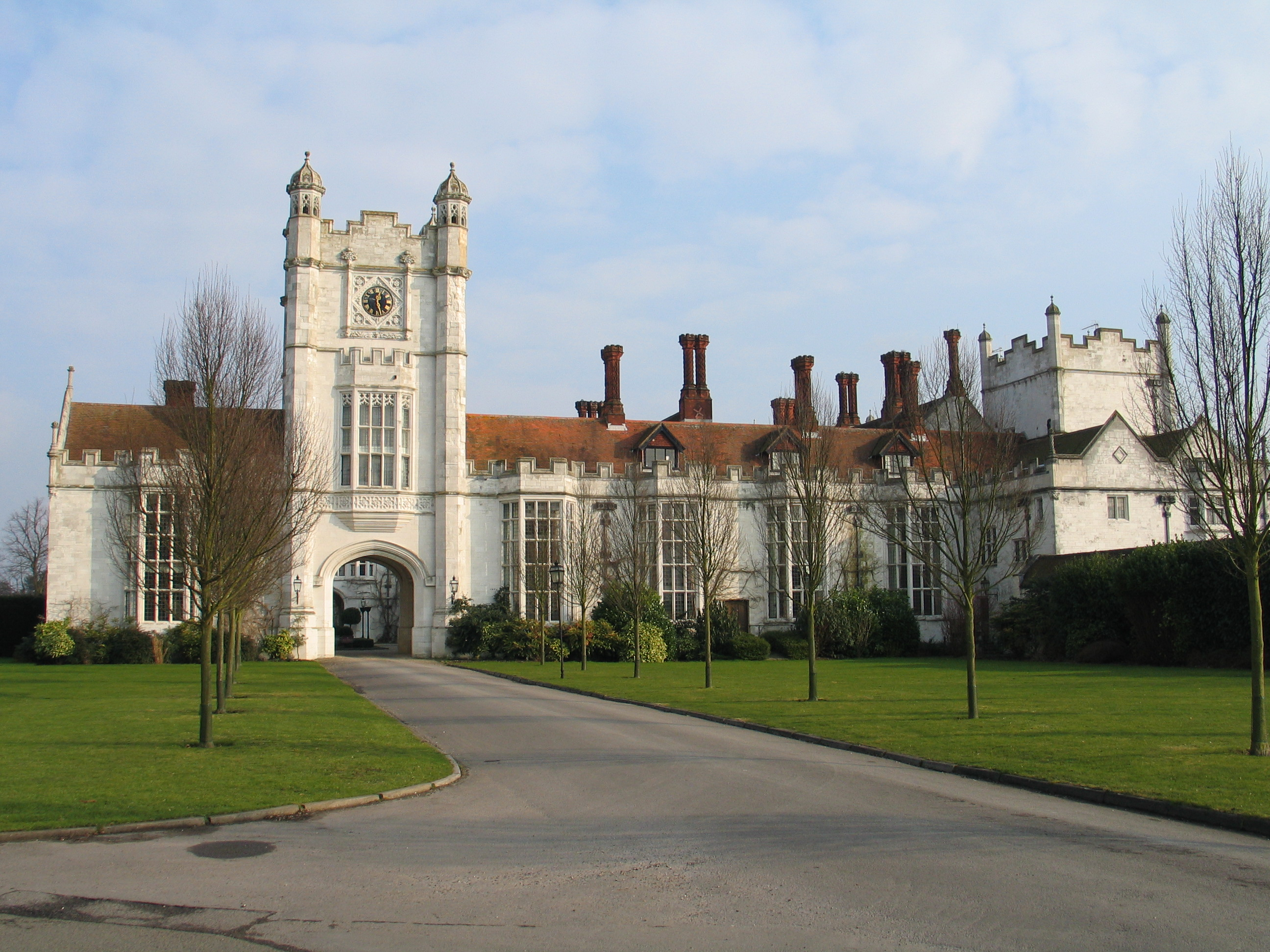 Main approach to the Danesfield House